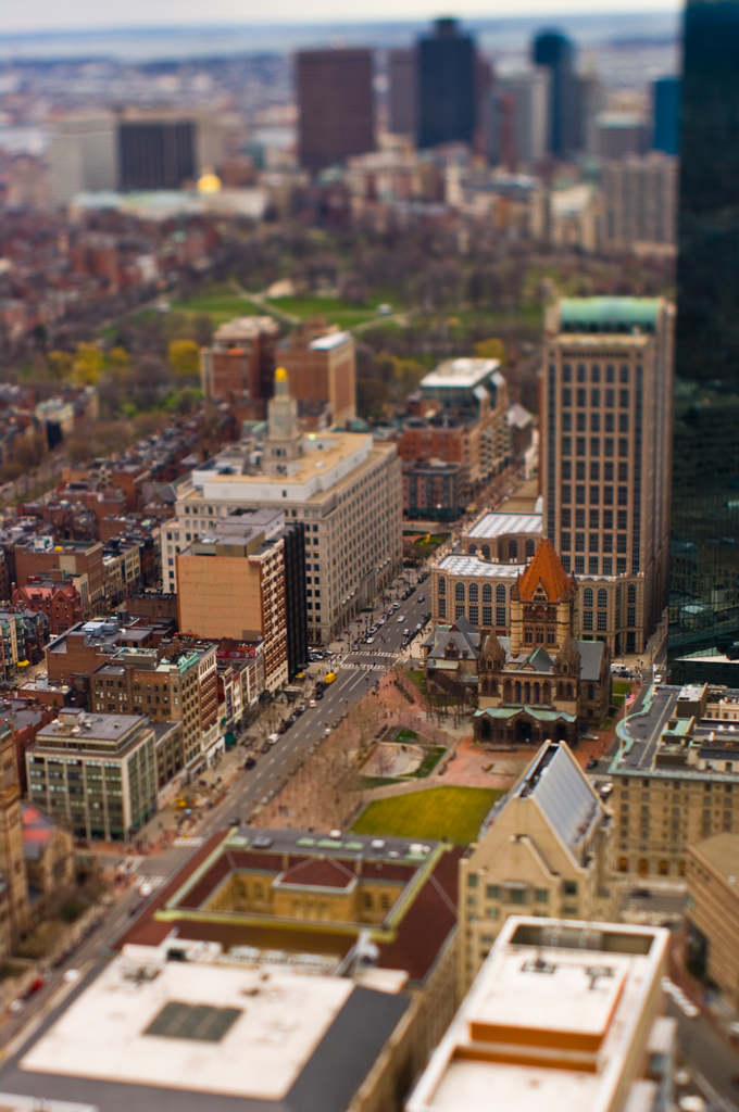 Copley Square, Boston. Another double tilt shot with the K20D, Hartblei Super-Rot 45/3,5 + tilt adapter @ 16 deg.